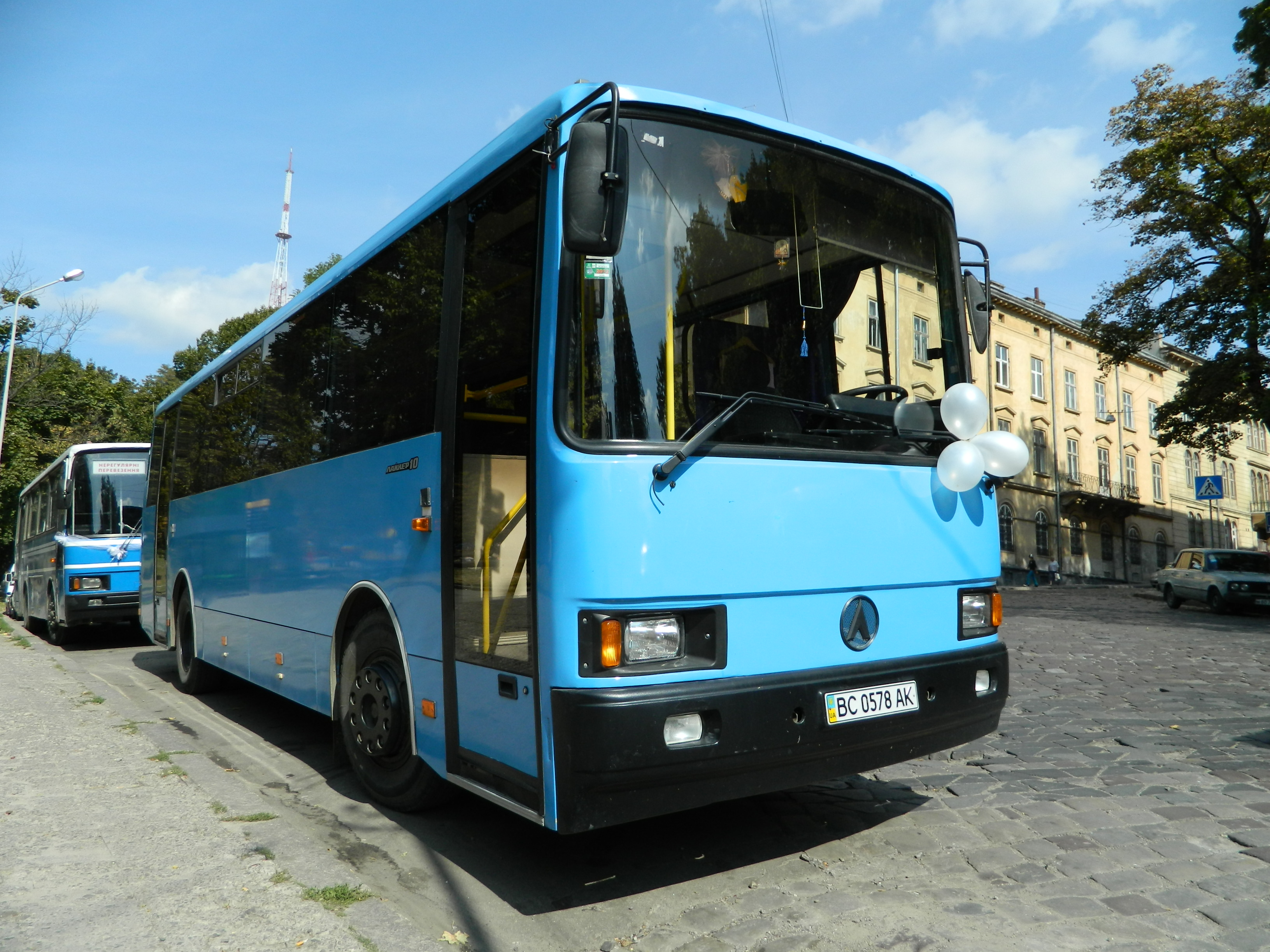 LAZ Liner 10 bus (reg. BC 0578 AK) in Lviv, Ukraine.